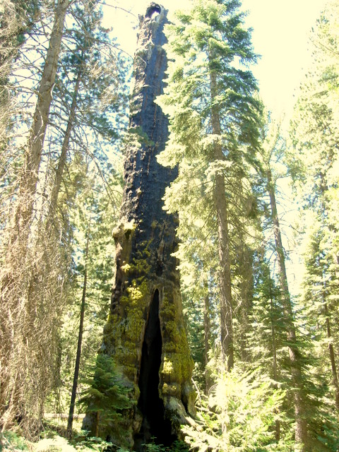 The Muir Snag — in the Converse Basin Grove, Sequoia National Forest, Sierra Nevada, California.